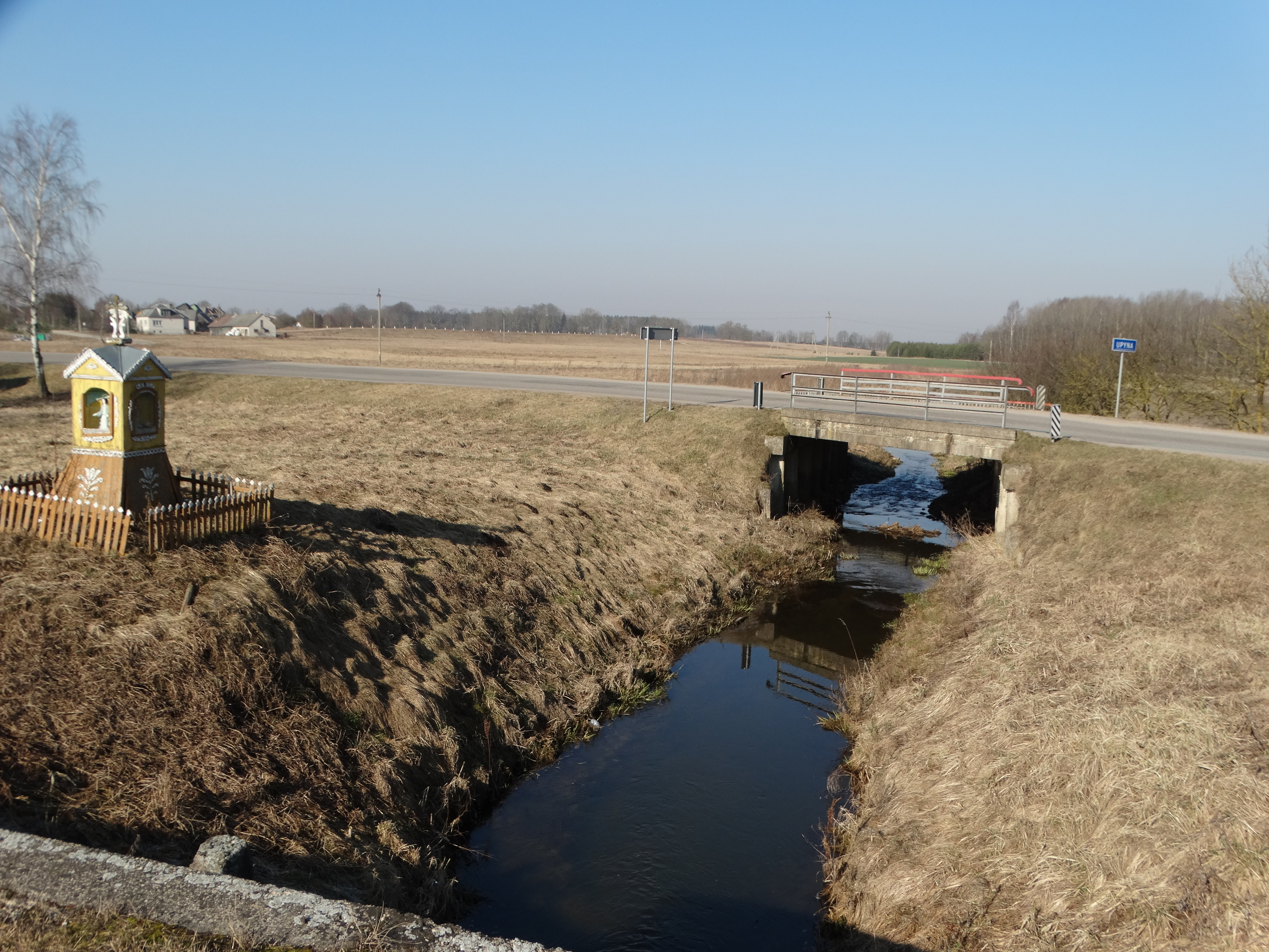 Upyna River, tributary of Virvytė River, in Upyna, Telšiai district, Lithuania